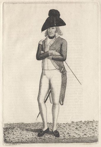 Charles Lennox, 4th Duke of Richmond, engraving after John Kay, 1789